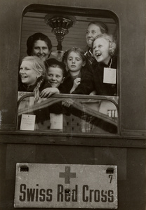 Swiss Red Cross: Children transport from Vienna to Switzerland. Departure in Vienna.